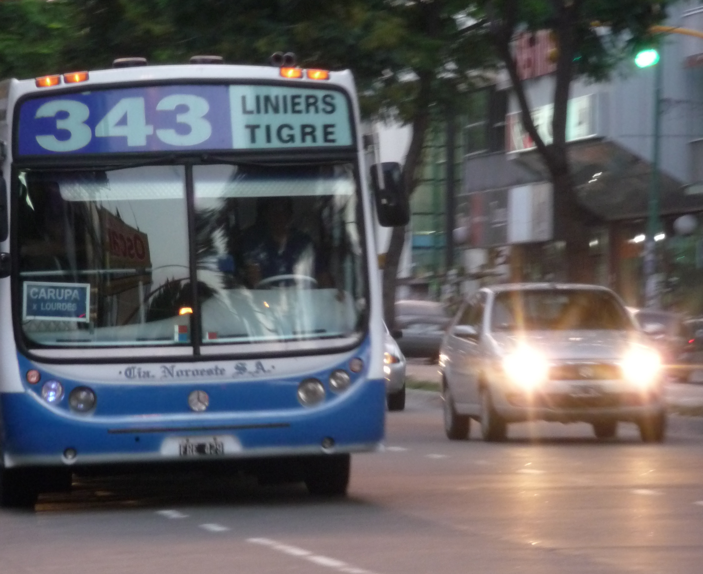 Bus (reg. FRE 429) with Mercedes-Benz chassis in Buenos Aires, Argentina. Colectivo, line 343, Compañía Noroeste S.A. operator.